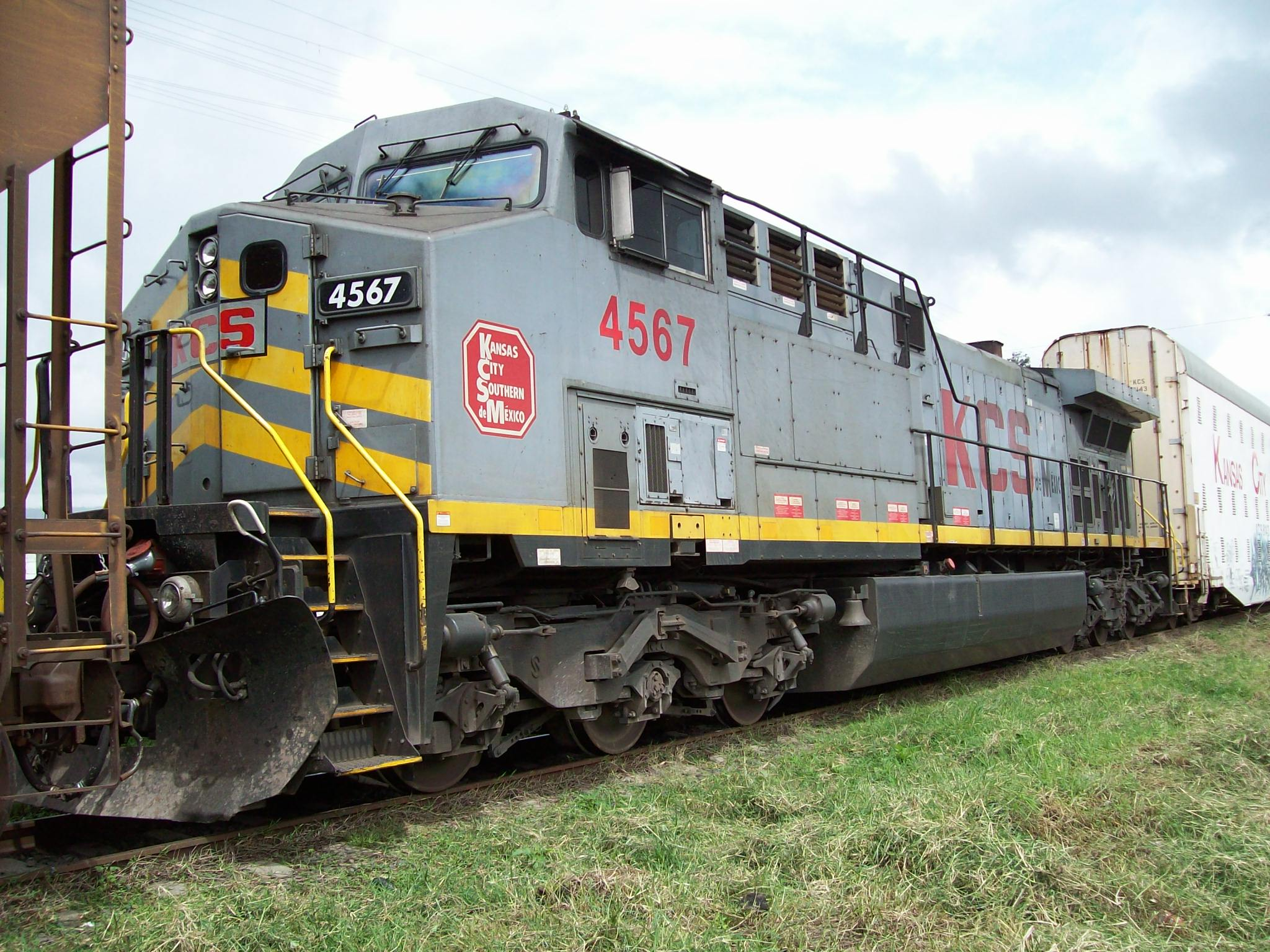 GE AC4400CW KCSdeM 4567 near Caltzonzin Station in Michoacan State.